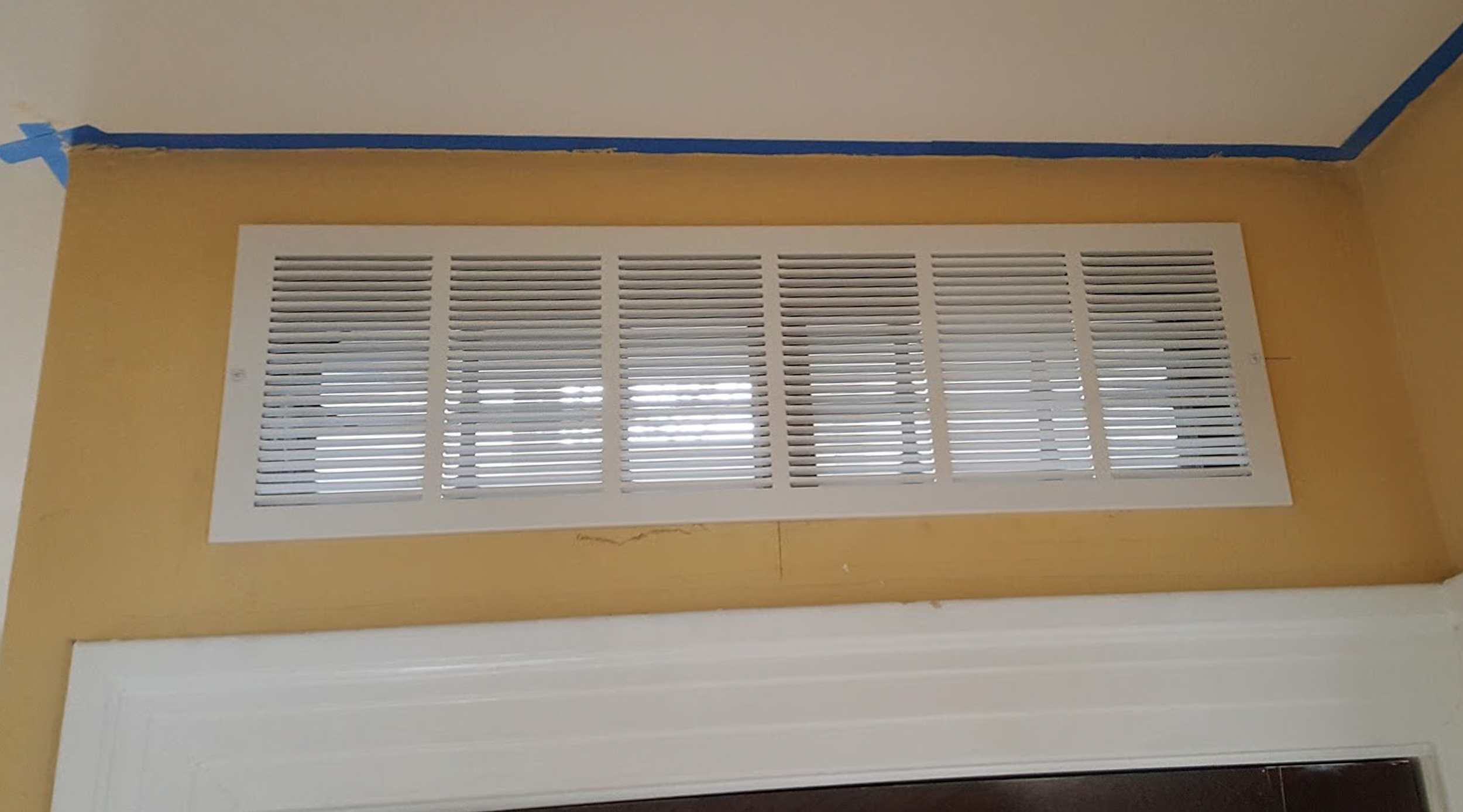 An unlouvered wall register in a domestic house in Cleveland, Ohio, in the United States. The home has had air conditioning installed, and the register allows air to circulate from the upstairs to the downstairs.